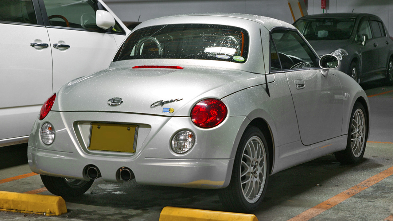 Daihatsu Copen 660 Ultimate Edition